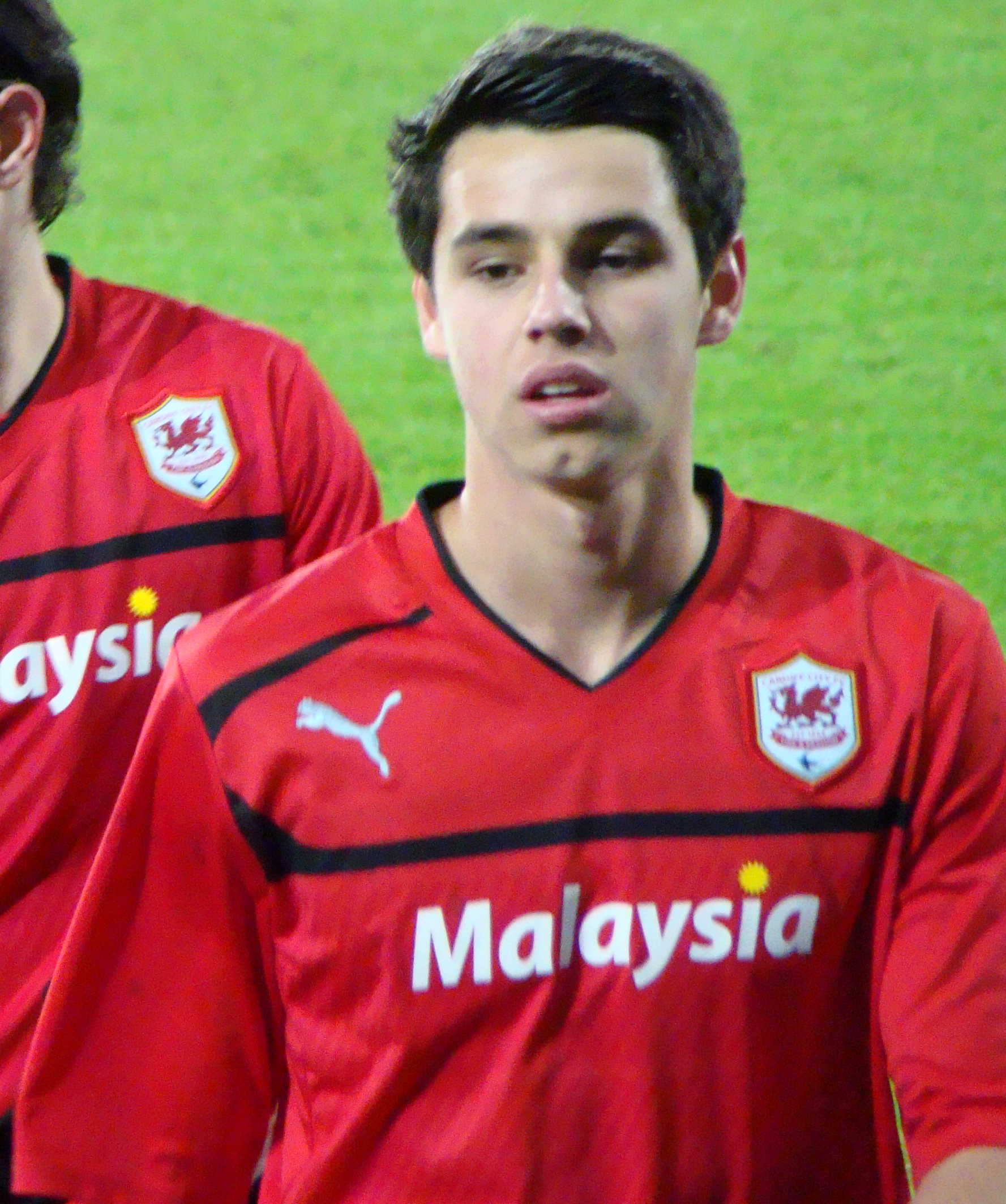 Tommy O'Sullivan, Cardiff City U21 player.